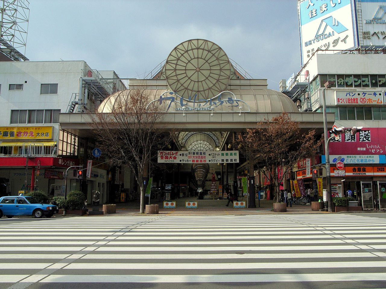 Galleria Takemachi, Shopping Mall in Oita City, Oita Pref., Japan